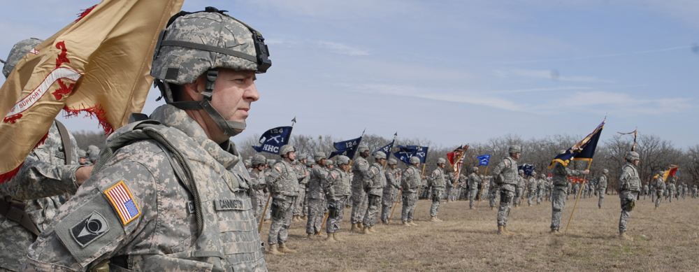 53rd Infantry Brigade Combat Team, mobilized at Fort Hood, TX, one day prior to deploying to Kuwait and Iraq, March 2010. Here the brigade is standing for review.